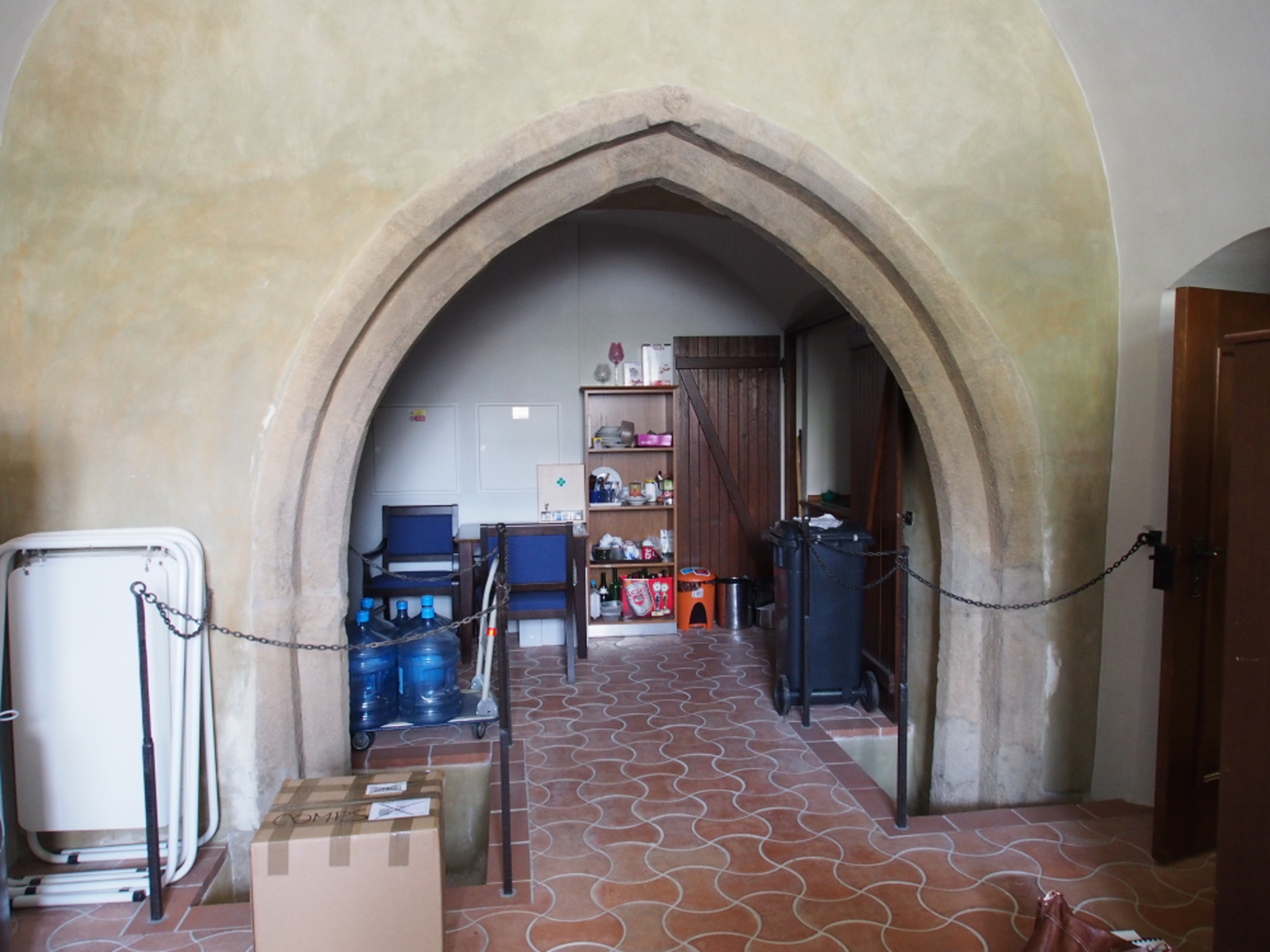 gothic portal